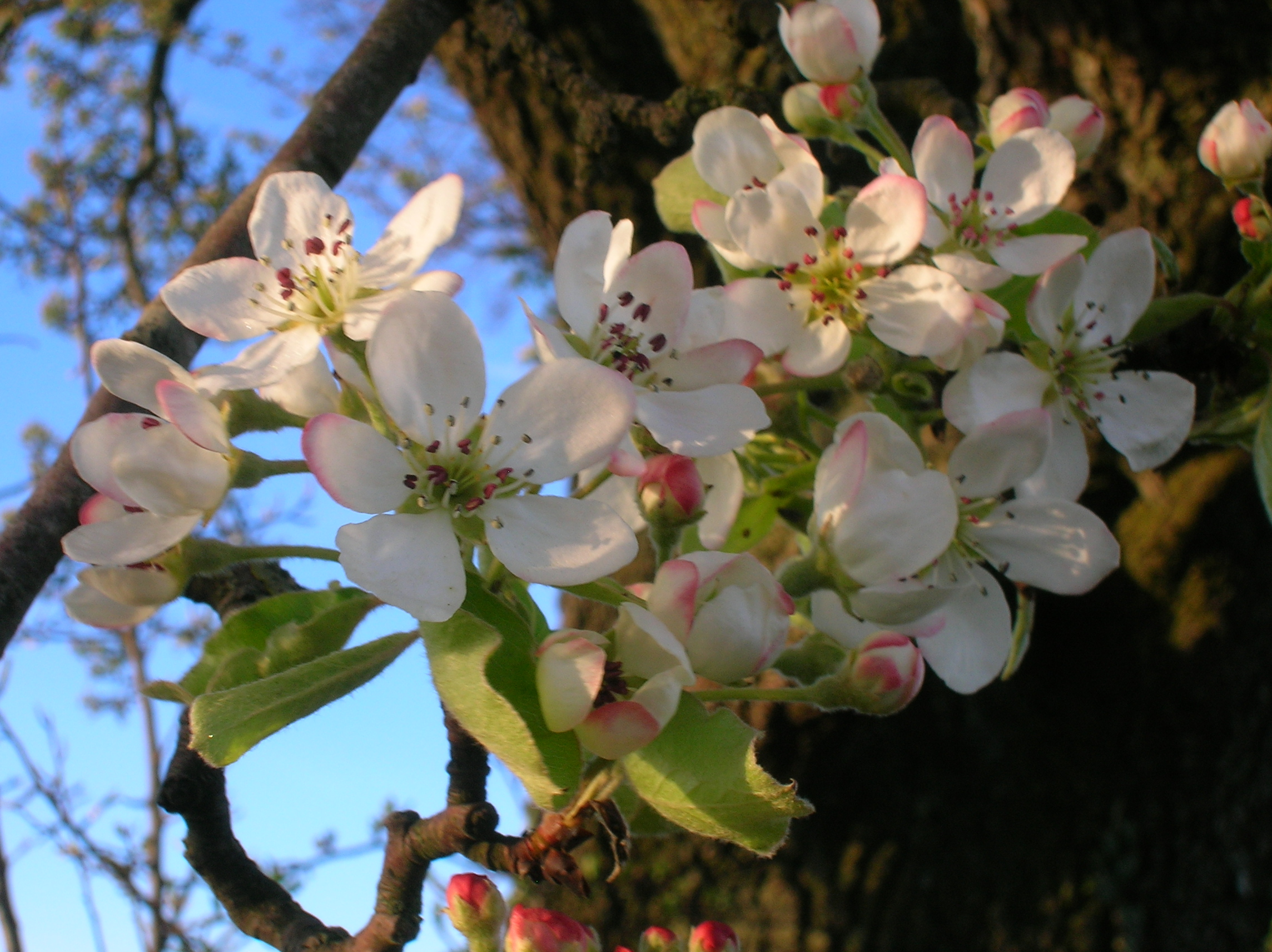 Pyrus pyraster or Wild pear, North Ayrshire, Scotland